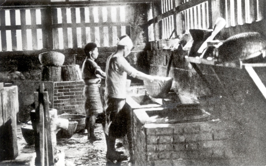 Washing rice for awamori, Okinawa, Japan